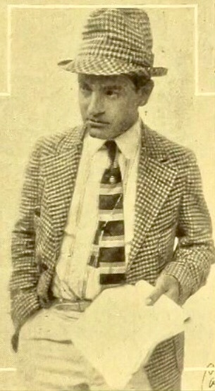 William J. Bowman depicted in a film-industry "Studio Directory" published by the trade magazine Motion Picture News (MPN), January 29, 1916, page 37 (this page number refers to the image's location in the cited directory, which is a supplement within the magazine's standard issue). In 1930, MPN merged with Exhibitors' Herald World to form the Motion Picture Herald, which ceased publication in 1972.